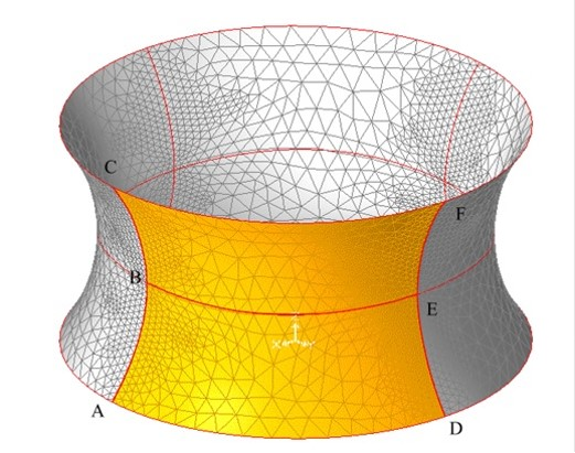 Cathenoidal surfrace with lines